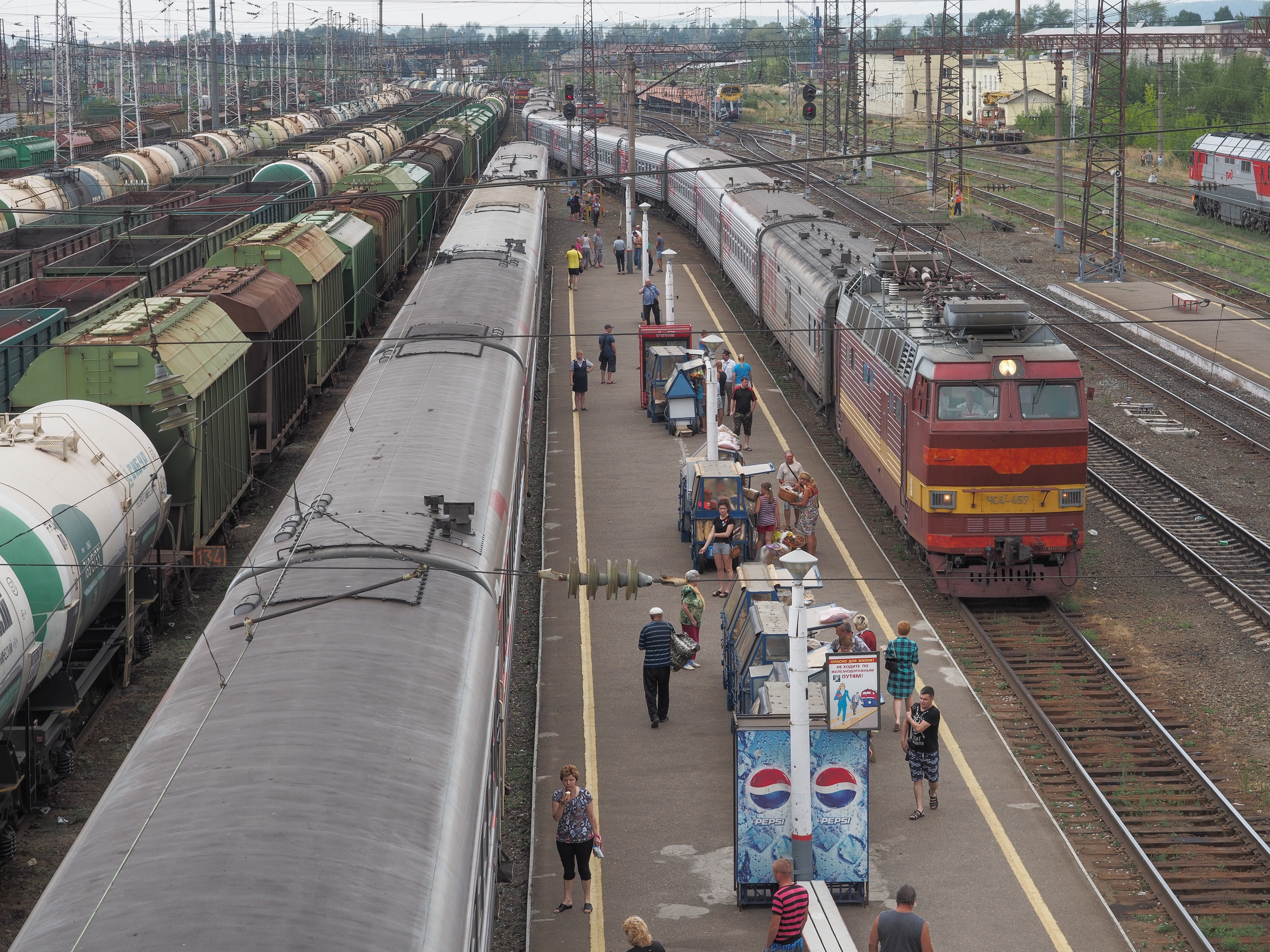 Train Station of Balezino, at the left side train № 110Э to Novij Urengoi and on the right side the firmeny train № 030Н "Кuzbass" to Kemerovo